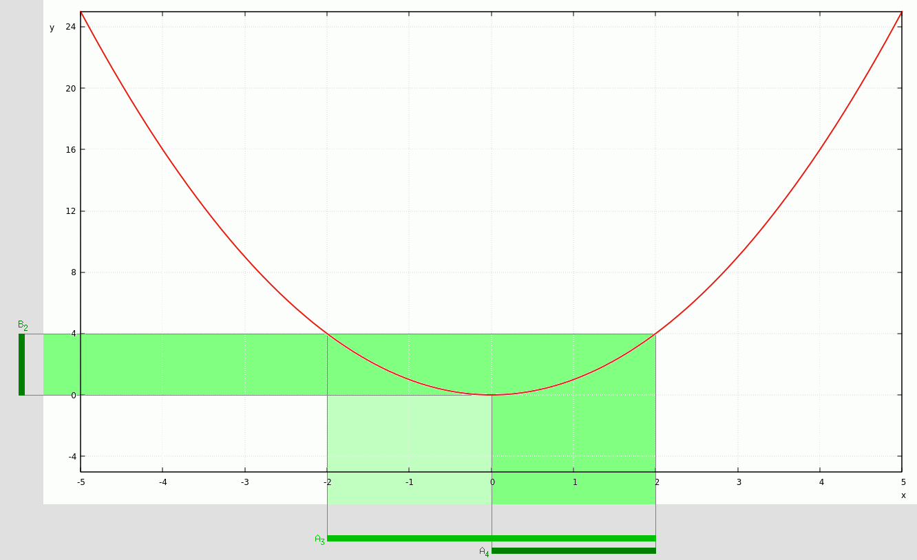 Counter-examples for function image/preimage laws that might intuitively be expected but do not hold in general. See File:File:Image preimage conterexamples.gif for detailled description. While f−1(f(A)) ⊇ A holds generally, f−1(f(A)) ⊆ A does not: e.g. f−1(f(A4)) = f−1(B2) = A3 ⊄ A4.